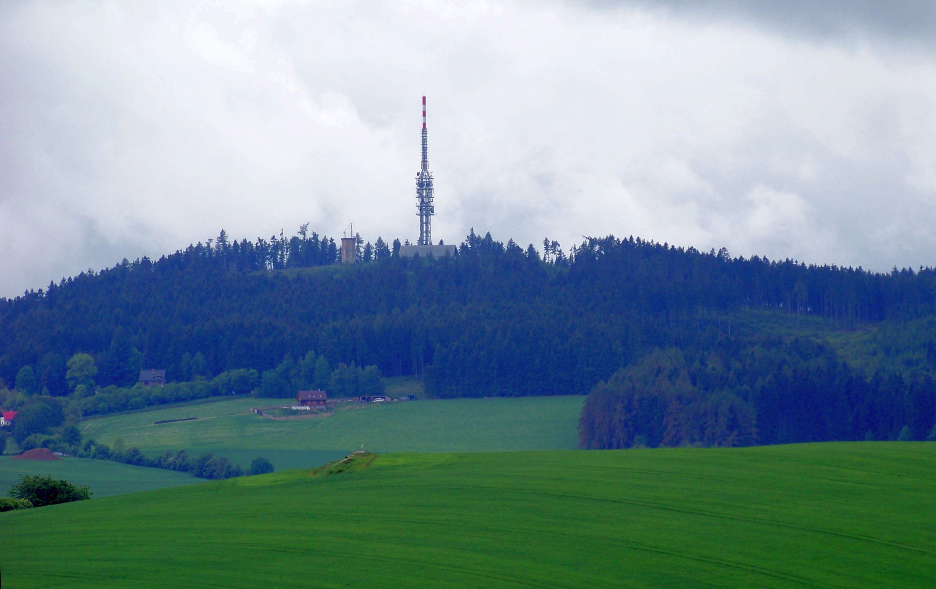 Neustupov-Svojšice, Benešov District, Central Bohemian Region, the Czech Republic.